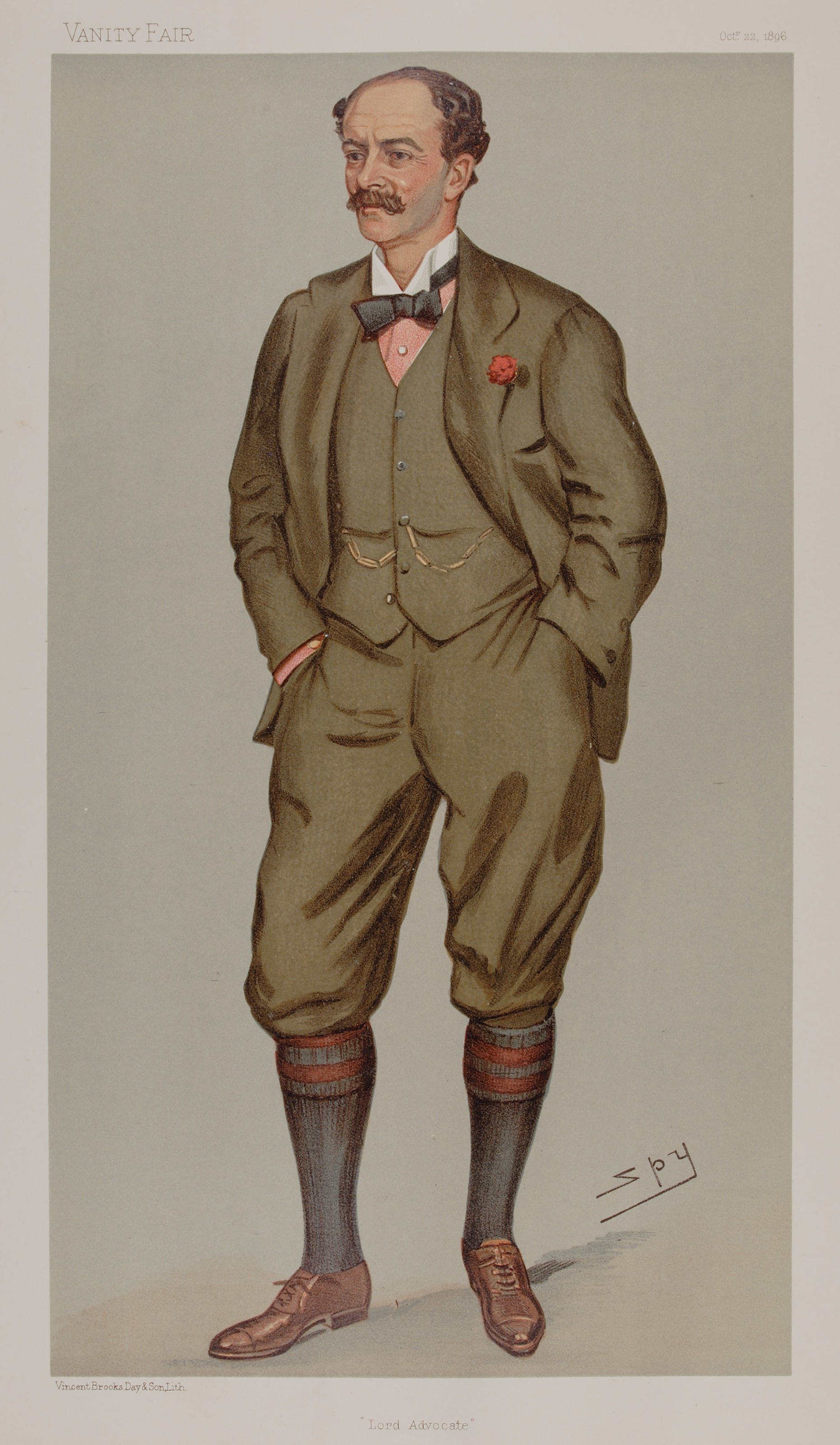 Statesmen No.680: Caricature of The Andrew Murray, 1st Viscount Dunedin the Lord Advocate. Caption reads: "Lord Advocate"